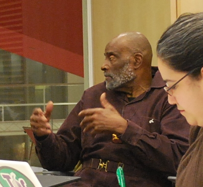 Mel King